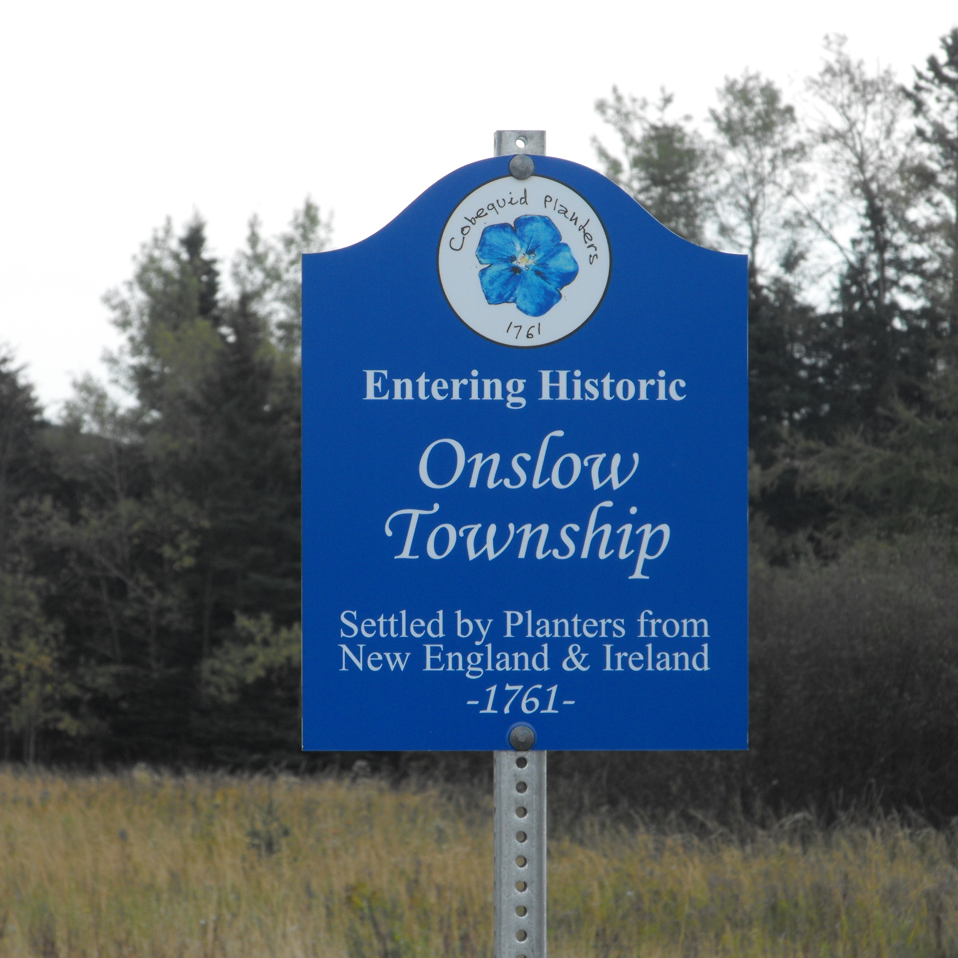 Onslow Township marker sign, Nova Scotia